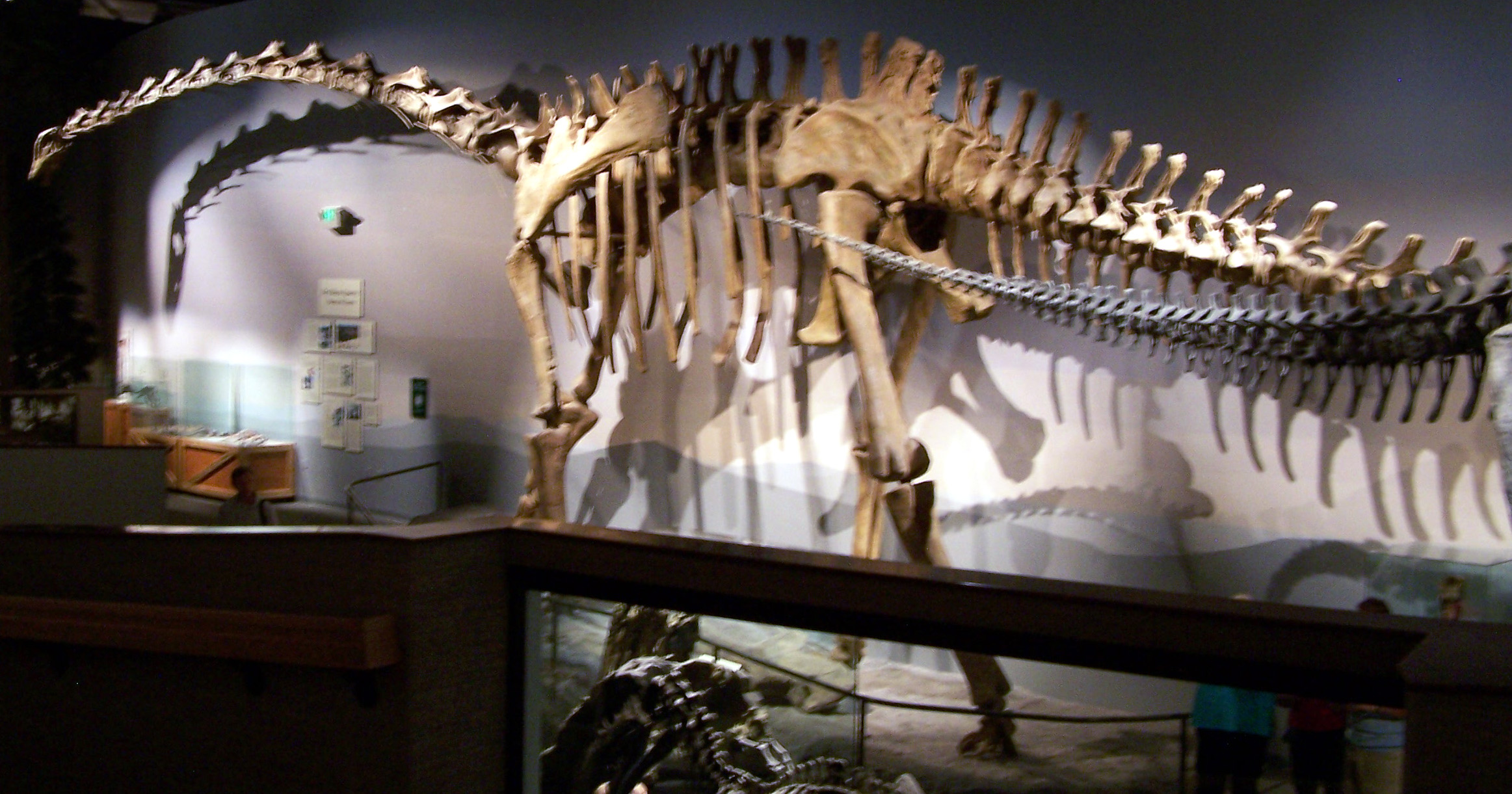 The supersaurus from a different angle, North American Museum of Ancient Life.